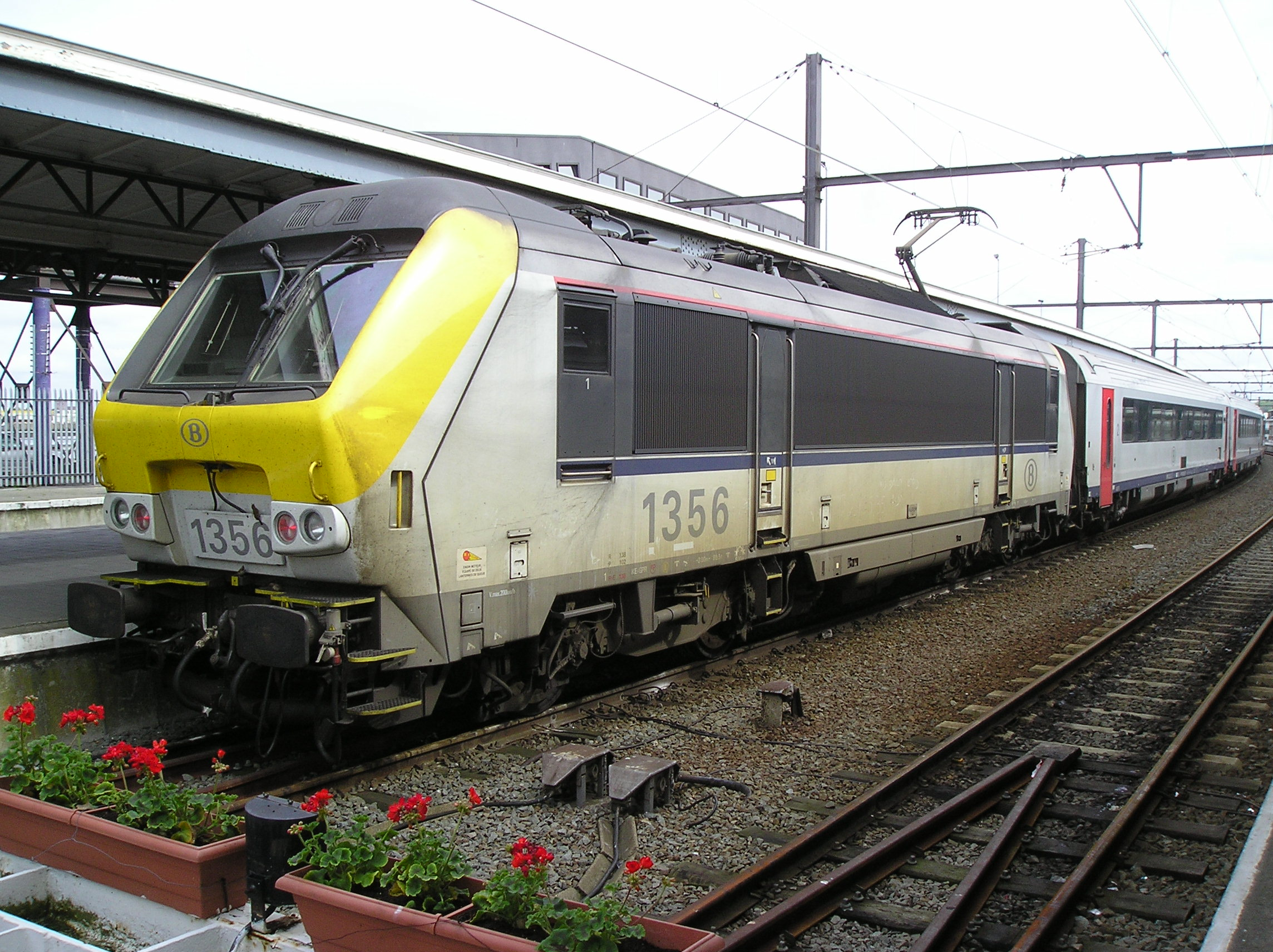 Electric locomotive No 1356 of the Belgian railways, Ostend train station. 13 stands for locomotive series and 56 for the number of this particular locomotive inside the series.